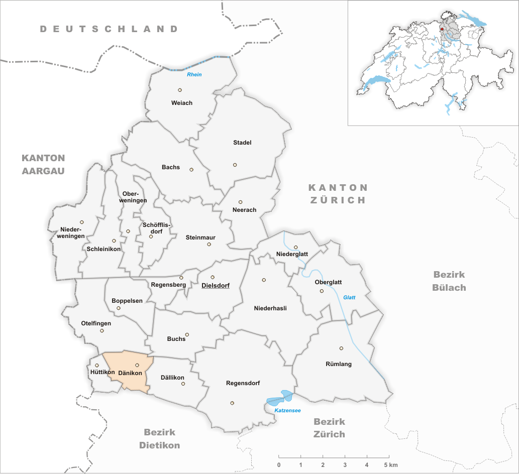 Municipality Dänikon